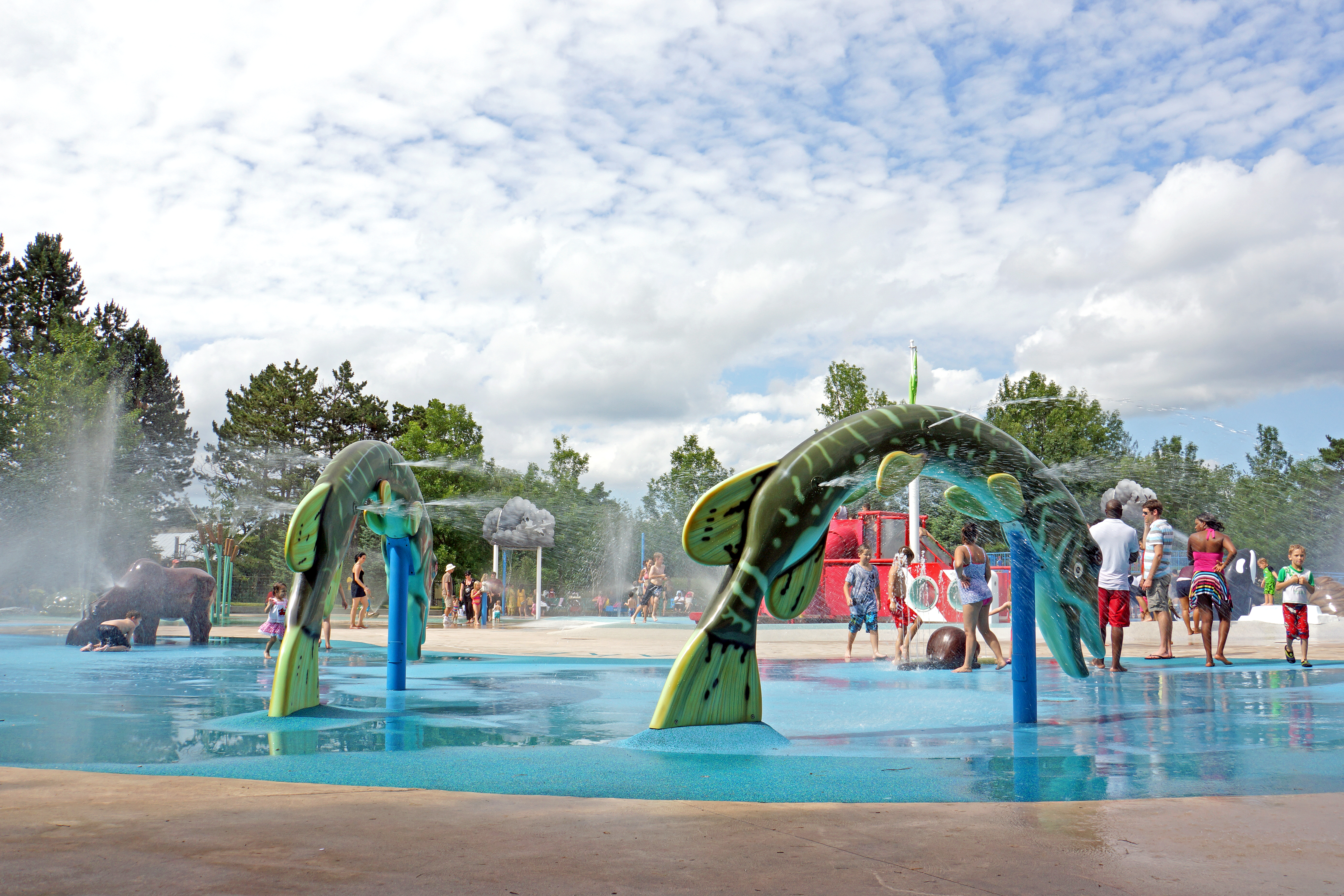 PLEASE, no multi invitations, glitters or self promotion in your comments, THEY WILL BE DELETED. My photos are FREE for anyone to use, just give me credit and it would be nice if you let me know, thanks - NONE OF MY PICTURES ARE HDR. My grandchildren loved this place, it was a hot day. Appealing especially to children under 12, Splash Island is two acres of hands-on water fun, including waterslides, a waterfall, misters, and tipping buckets. In addition, Splash Island has an educational component, teaching kids which plants and animals live in different bodies of water in Canada.